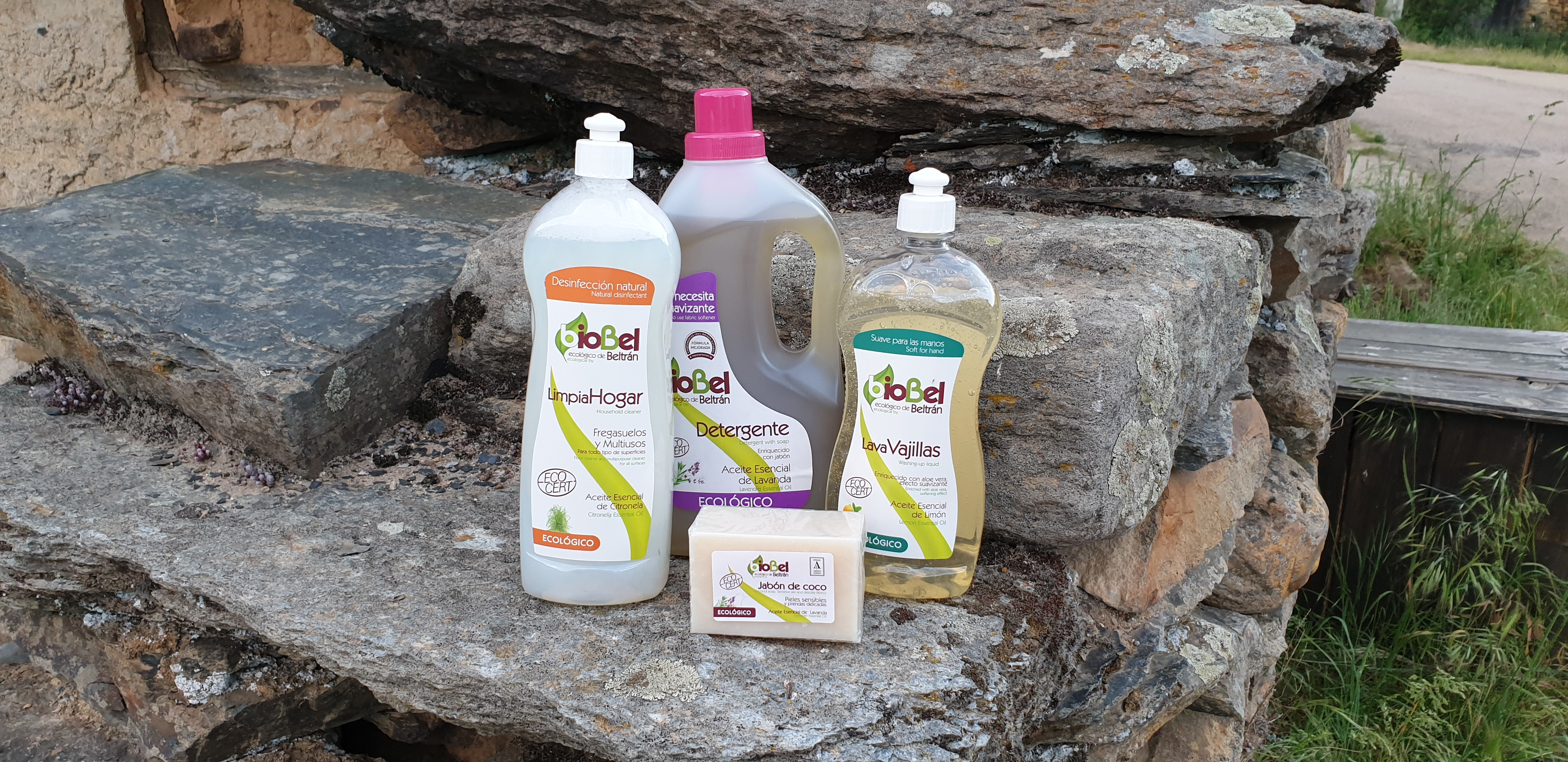 Jabones ecológicos en Valdavido